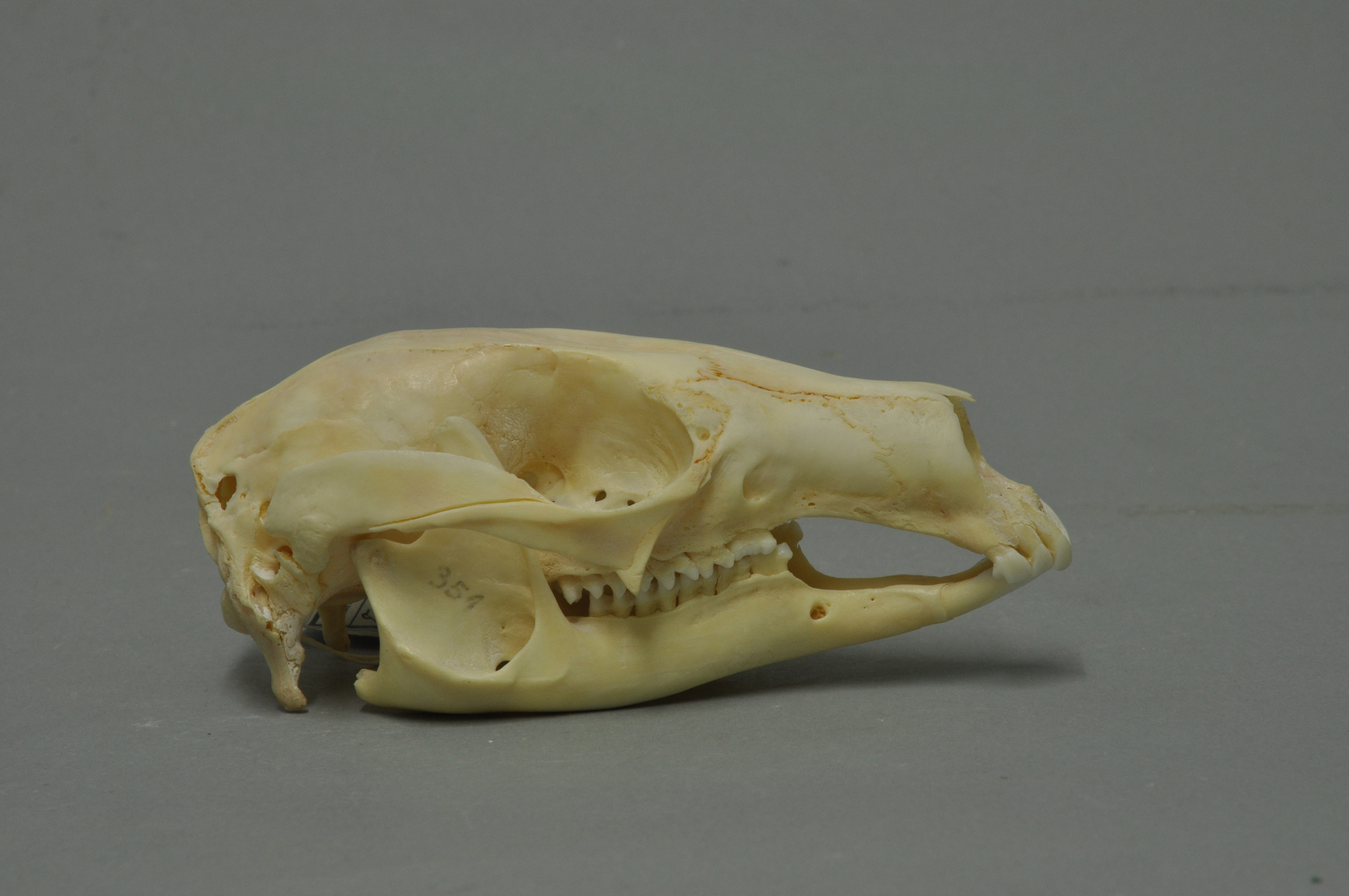 Tasmanian pademelonThylogale billardierii , skull, Coll. Museum Wiesbaden